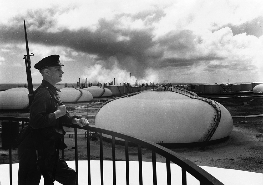 Title: Dutch soldier at Aruba guarding Lago Creator: Robert Yarnall Richie Date: September 1939 Place: Aruba Description: Negatives from this series were accompanied by a typewritten letter: Aruba has been agog with 'rumors of war'. Being the worlds' largest refinery it supplies vast quantities of avation [sic] gasoline to England and France. Consequently apprehension is felt in the event of hostilities. The garrison of Dutch Marines have been greatly enlarged in the last week or so, to guard the hundreds of thousands of barrels of high octane gasoline, stored in Hortonspheroids against possible sabotage. This refinery is operated by the Lago Oil and Transport Co., Ltd. a subsidary [sic] of Standard Oil of New Jersey. Crude oil supplies for the refinery are drawn mainly from the new fields of eastern Venezuela, Lake Maracaibo fields and from Columbia [sic]. Gov. G.J.J. Wouters is in almost daily conference with Lloyd G. Smith general manager of the refinery on interesting matters pertaining to the protection of the refinery. There you have the story behind the enclosed films of a Dutch Marine on the lookout for possible sabotage. Excerpt from letter just recieved [sic] from Mr. Richie who is now in Venezuela photographing various phases of oil production there. September 1st 1939. Physical Description: 1 negative film: black and white; 13 x 10 cm. File: ag1982_0234_2040_04b_aruba.tif Rights: Please cite DeGolyer Library, Southern Methodist University when using this file. A high-resolution version of this file may be obtained for a fee. For details see the web page. For other information, . For more information, View the Robert Yarnall Richie Photograph Collection